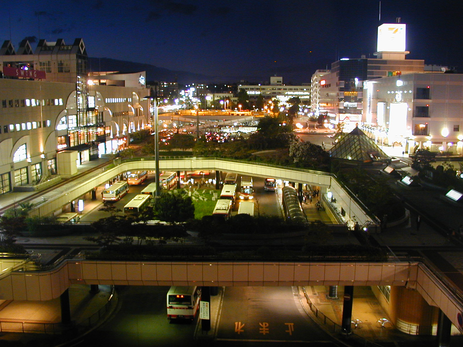 Night view of Izumi-Chuo terminal, a newly developed city center in northern Sendai, Japan